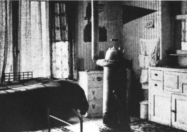 Caption: Nurses' quarters at Base Hospital No 20. Chatel Guyon France